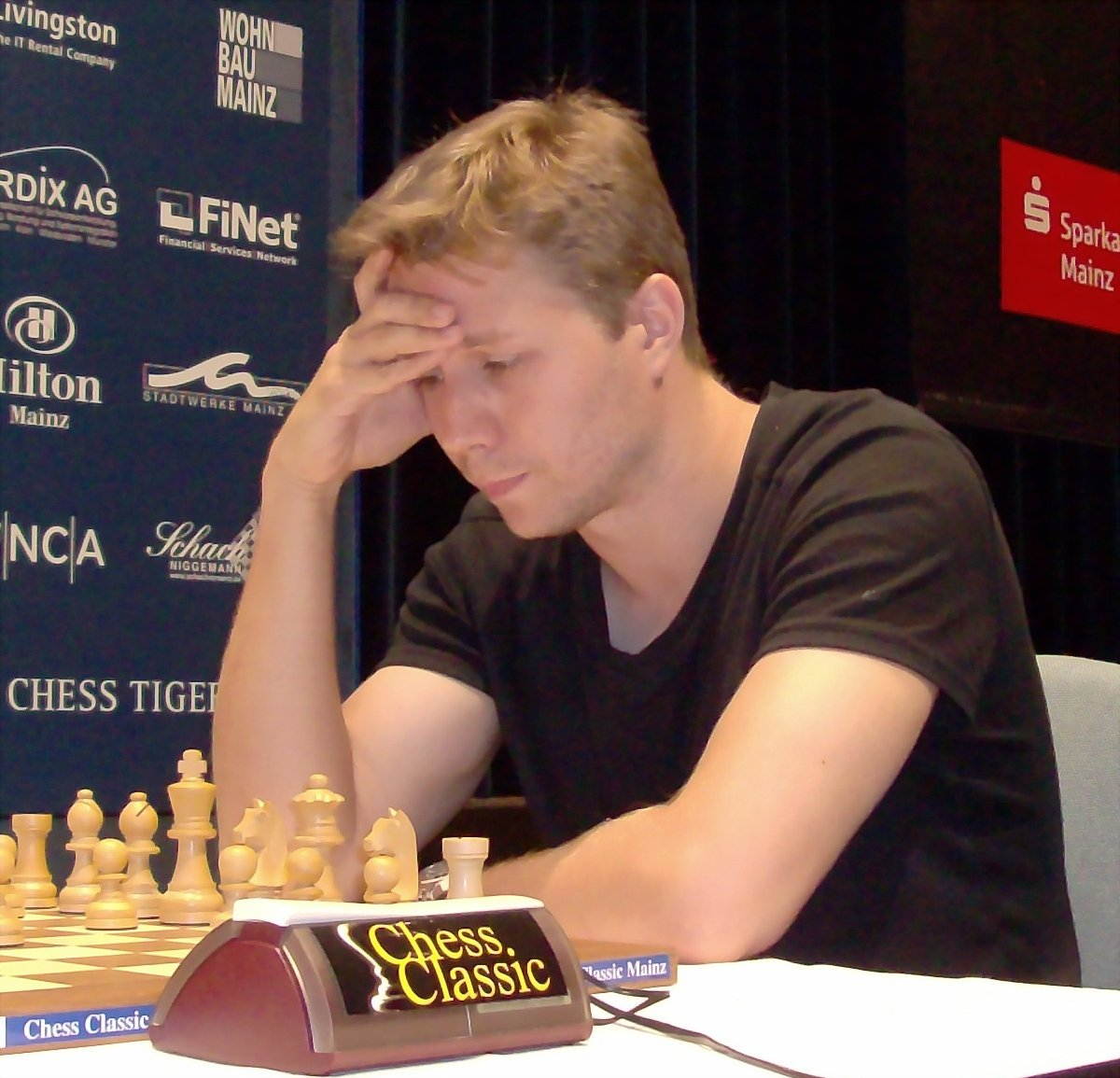 Alexander Motylev, 2008